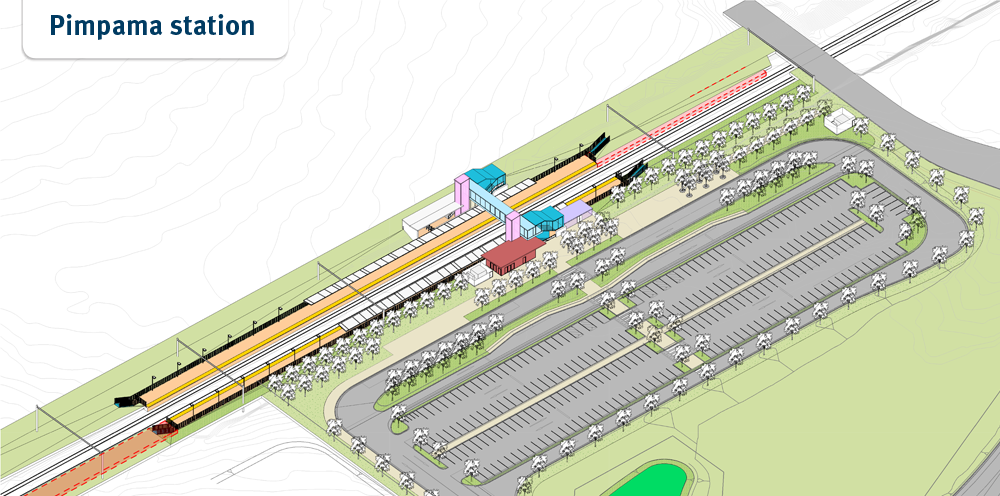 The concept design for the planned Pimpama railway station.